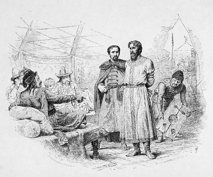 Mikhail Yaroslavich. Drawings by Vasily Petrovich Vereshchagin